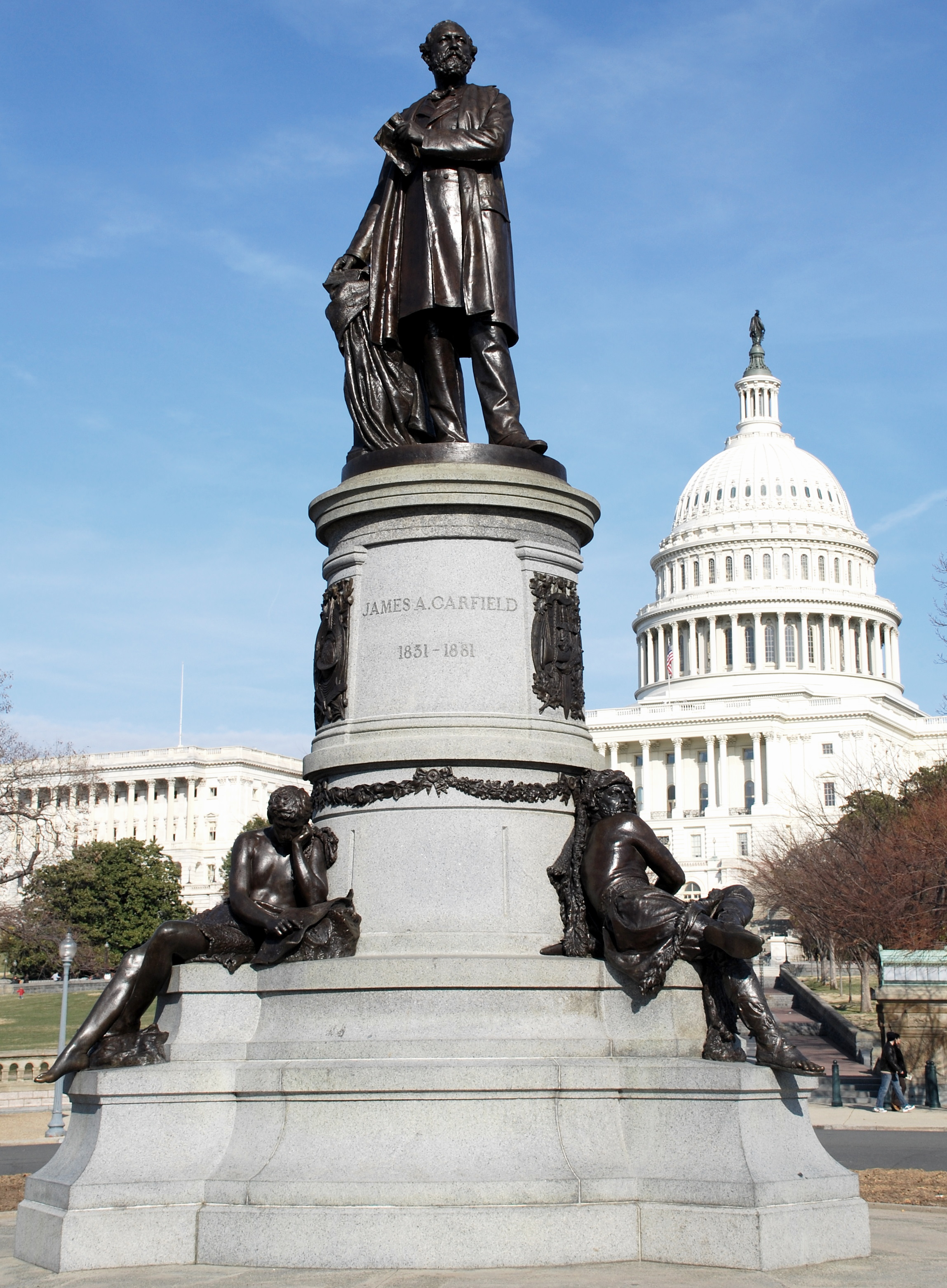 Picture of monument to James A. Garfield